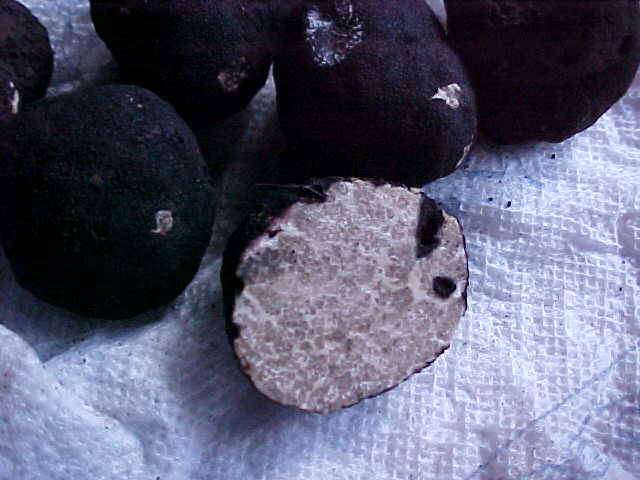 A mature specimen of the truffle-like fungus Leucangium carthusianum (Tul. & C. Tul.) Paol. Collected from Portland, Oregon, USA.